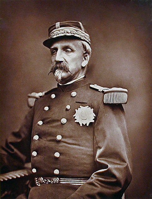 Eugène Appert (France, died N/A) Duc d'Aumale, 1876-1884 Photograph, Woodburytype, 8 3/4 x 6 3/4 in. (22.2 x 17.10 cm)